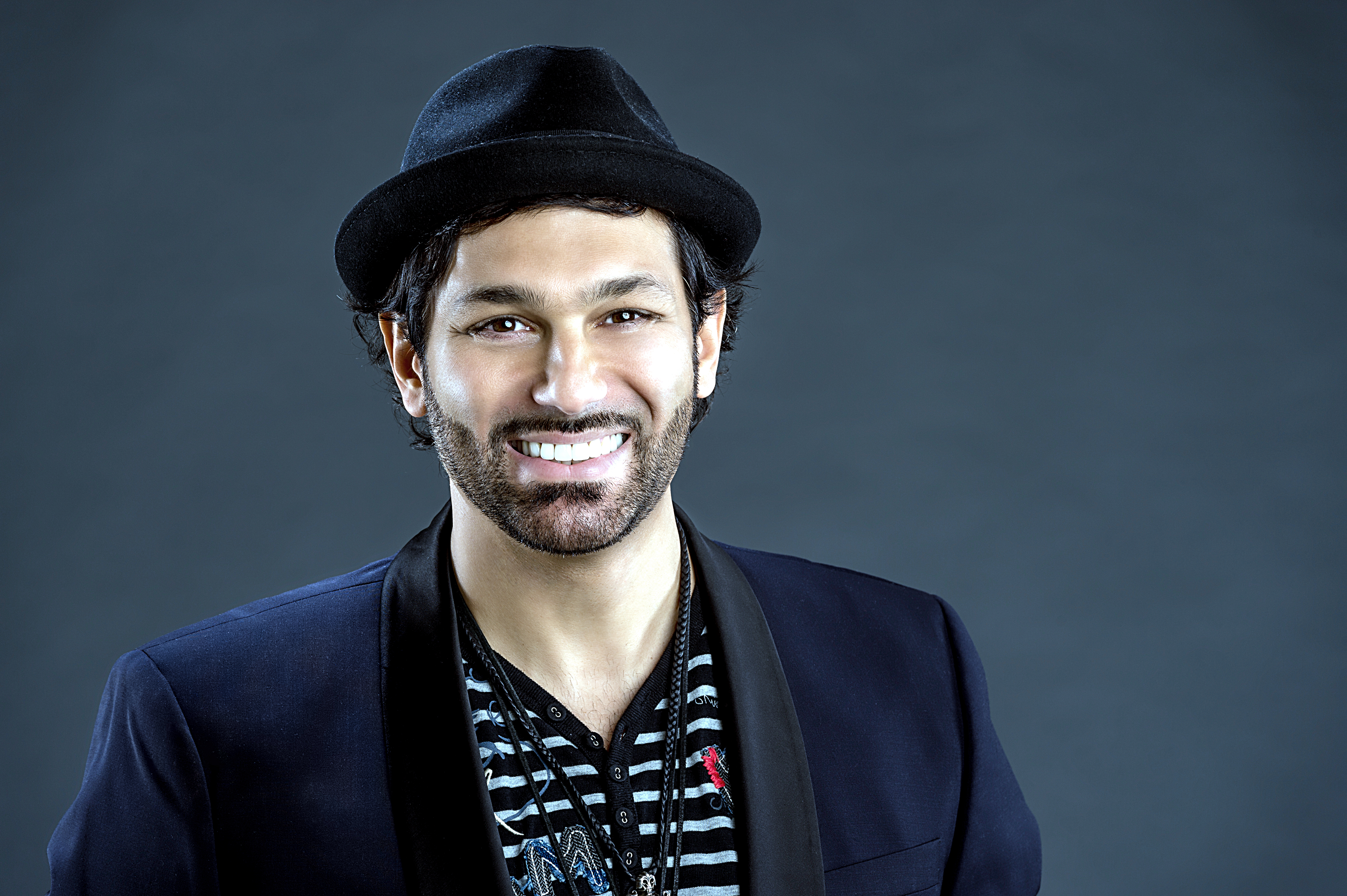 Leonardo Rocco, celebrity hair stylist